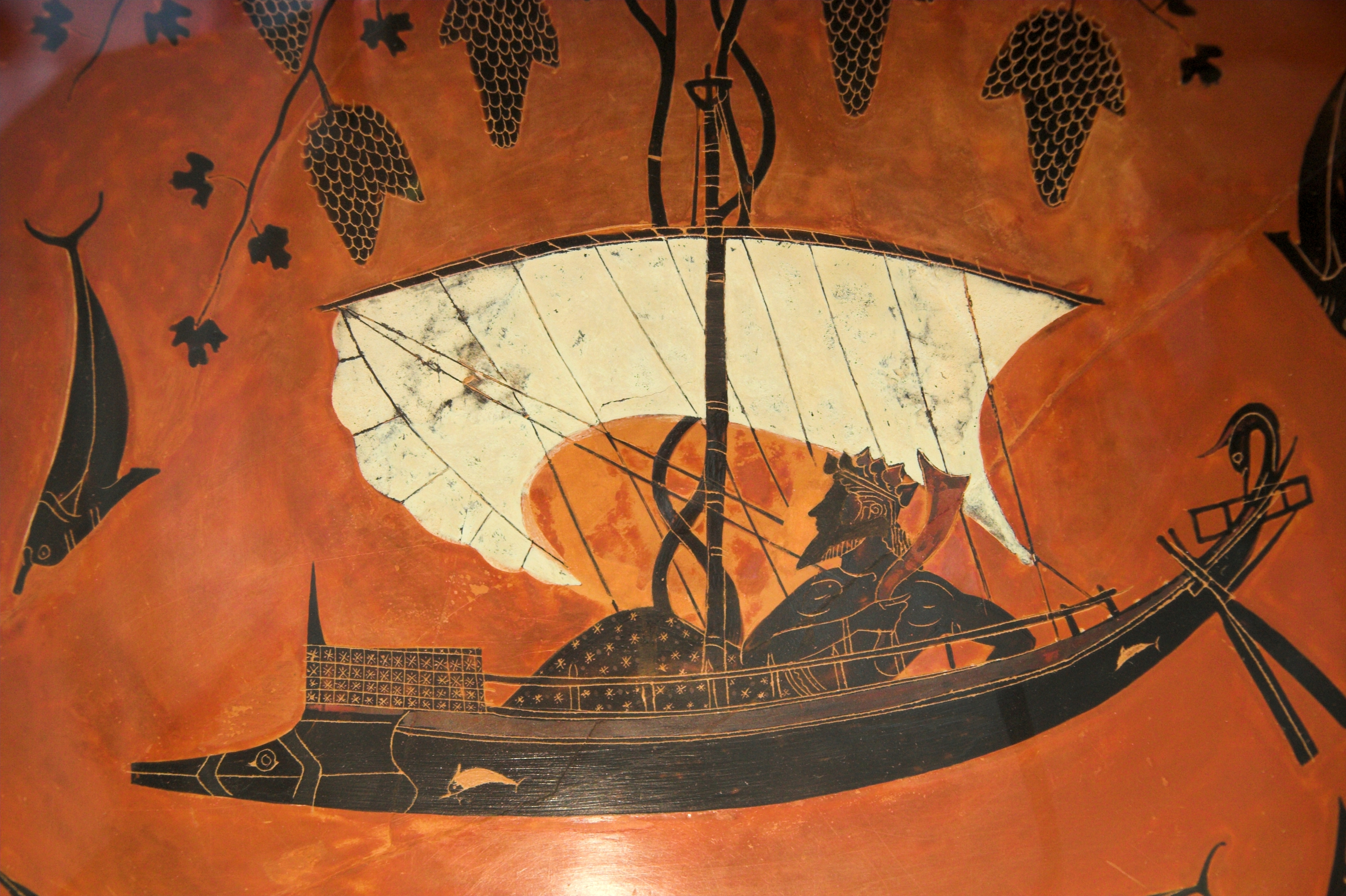 Dionysus on a ship sailing between dolphins. Black-figure kylix from Vulci, Exekias Painter, circa 530 BC. Staatliche Antikensammlungen München.